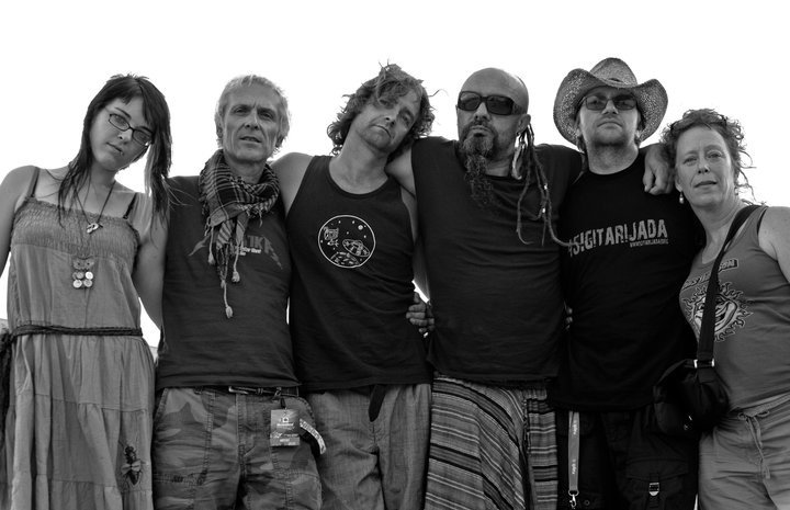 Kultur Shock on tour in Slovenija, 2011